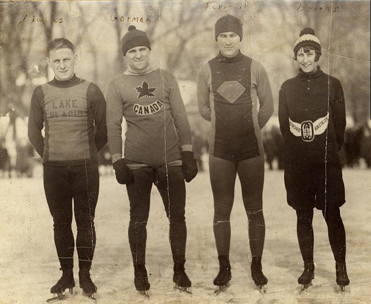 Valentine Bialas (from Utica, New York), Charles Gorman (from Saint John, New Brunswick), John Farrell (from Hammond, Indiana) and Lela Brooks (from Toronto, Ontario) at Lily Lake, Saint John, New Brunswick, Canada. They would all be Olympic speed skaters.